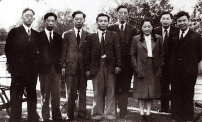 Sanqiang and He Zehui, second and third from right July 1946. They were the only Chinese experimental nuclear physicists at the International Conference on Fundamental Particles and Low Temperatures:Cambridge, July 1946